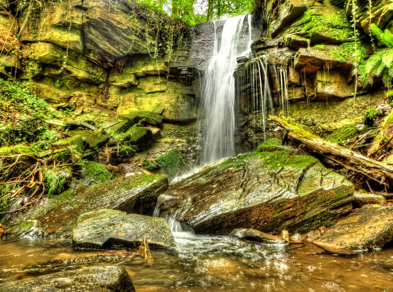 Waterfall Forellensprung Welzheim